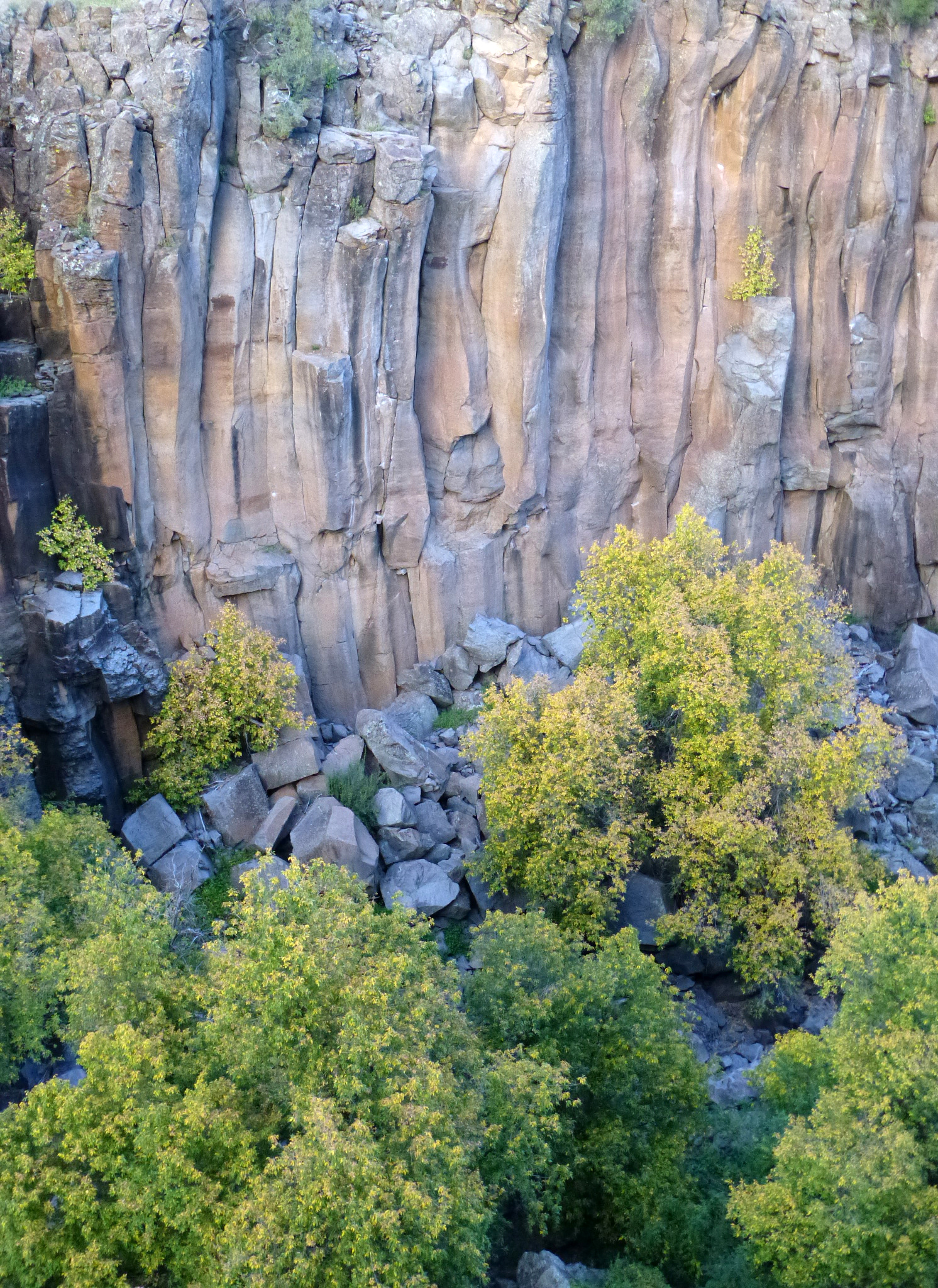 In the Sycamore Wilderness off of the Sycamore Rim Trail. On the Williams Ranger District. P1080679. 10-2-15. Photo by Dyan Bone. Credit the U.S. Forest Service, Southweste​rn Region, Kaibab National Forest.